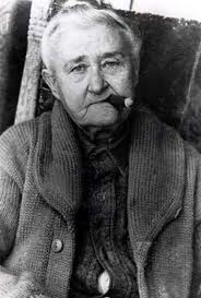 The photo is from the website , courtesy of South Dakota Historical Society. It is pre-1930 and in the public domain.